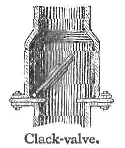 Illustration from 1908 Chambers's Twentieth Century Dictionary. Clack-valve, n. a valve used in pumps, having a flap or a hinge which lifts up to let the fluid pass, but prevents the fluid from returning by falling back over the aperture.